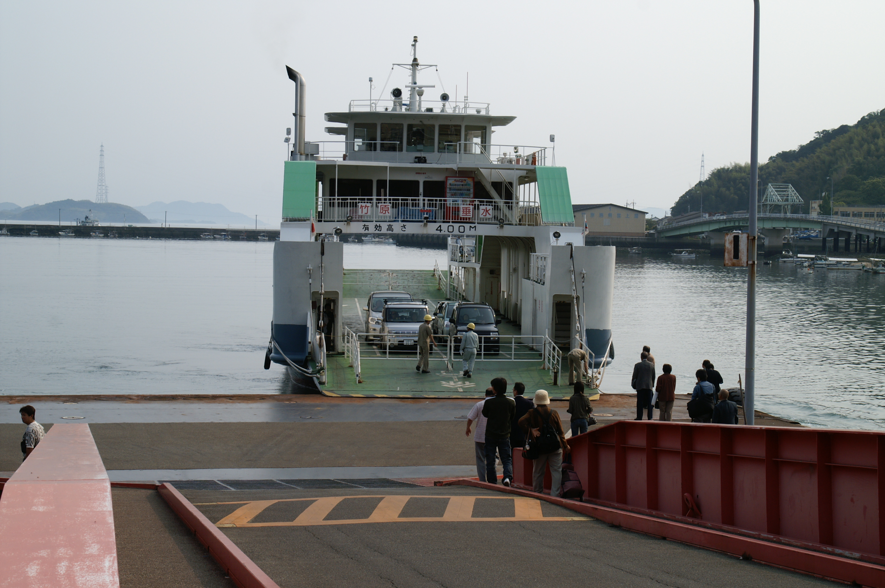 Takehara Port in Takehara, Hiroshima, Japan.